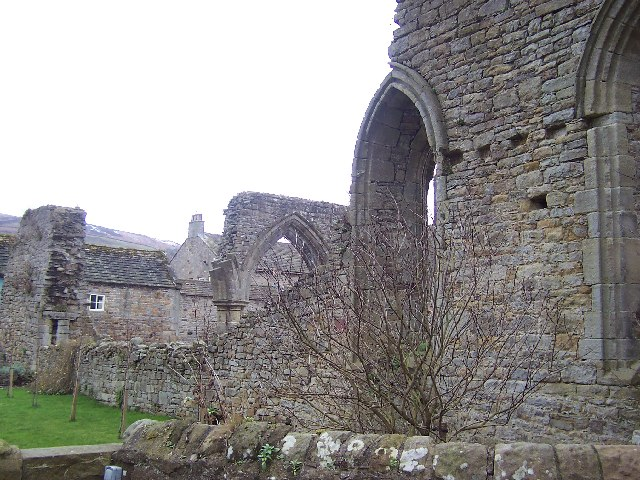 Ruined abbey at Coverham